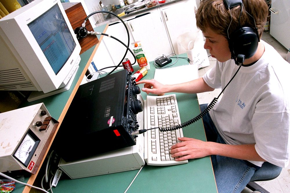 Amateur Radio operator Fabian, DJ1YFK from Germany during a visit to Sweden for a shortwave competition operating an Amateur Radio station using computer-generated telegraphy